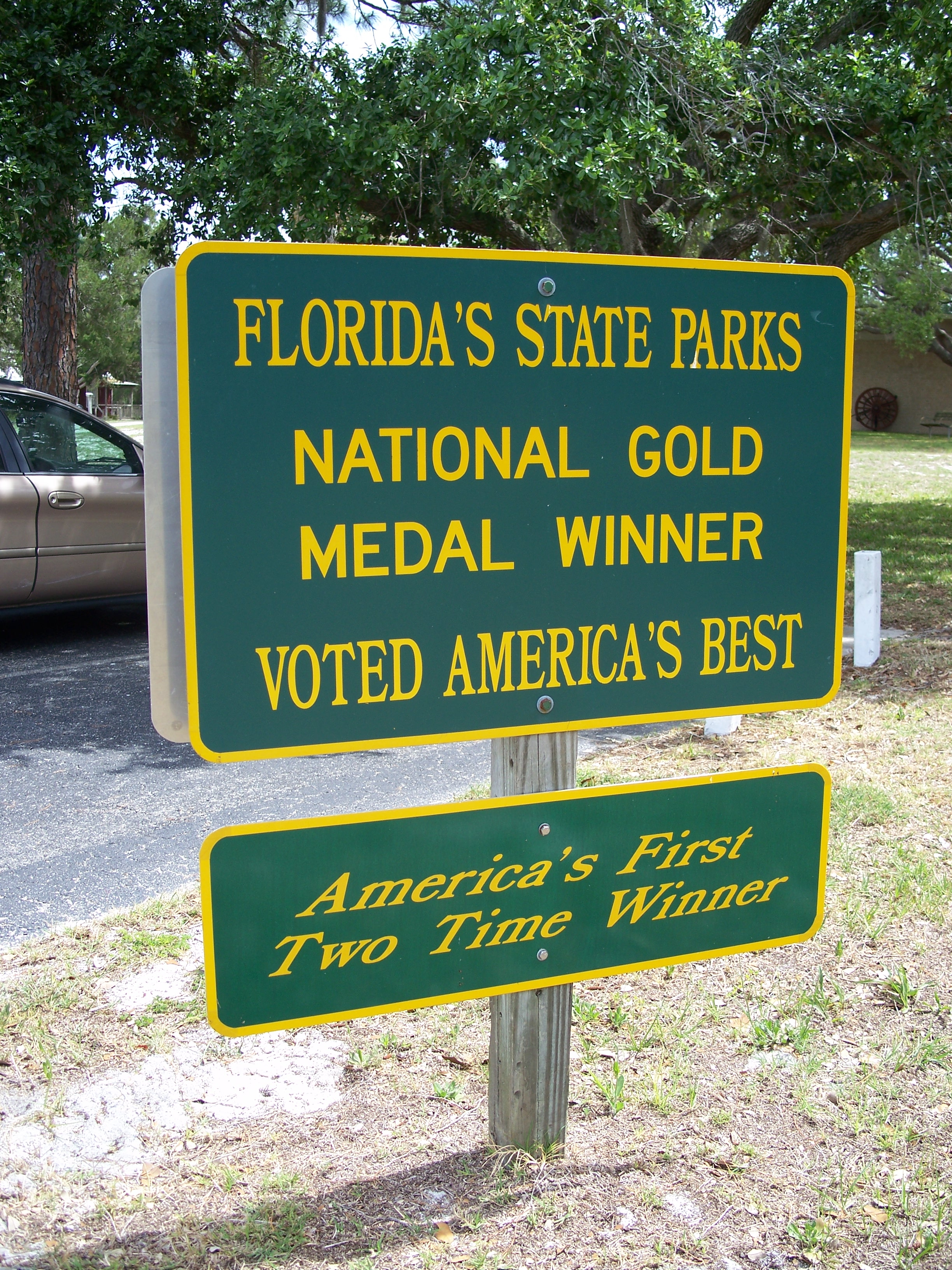 Sign outside the Cedar Key State Museum, stating that the Florida State Park system was the first two time National Gold Medal Winner, in Cedar Key, Florida